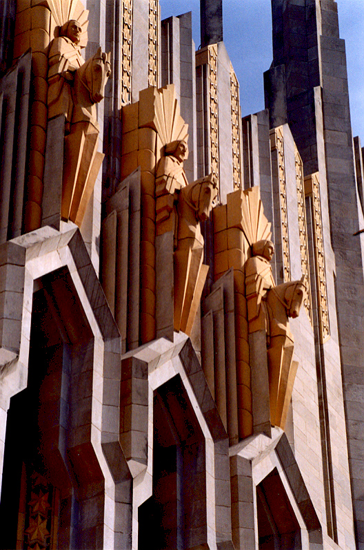 photo by Einar Einarsson Kvaran Robert Garrison